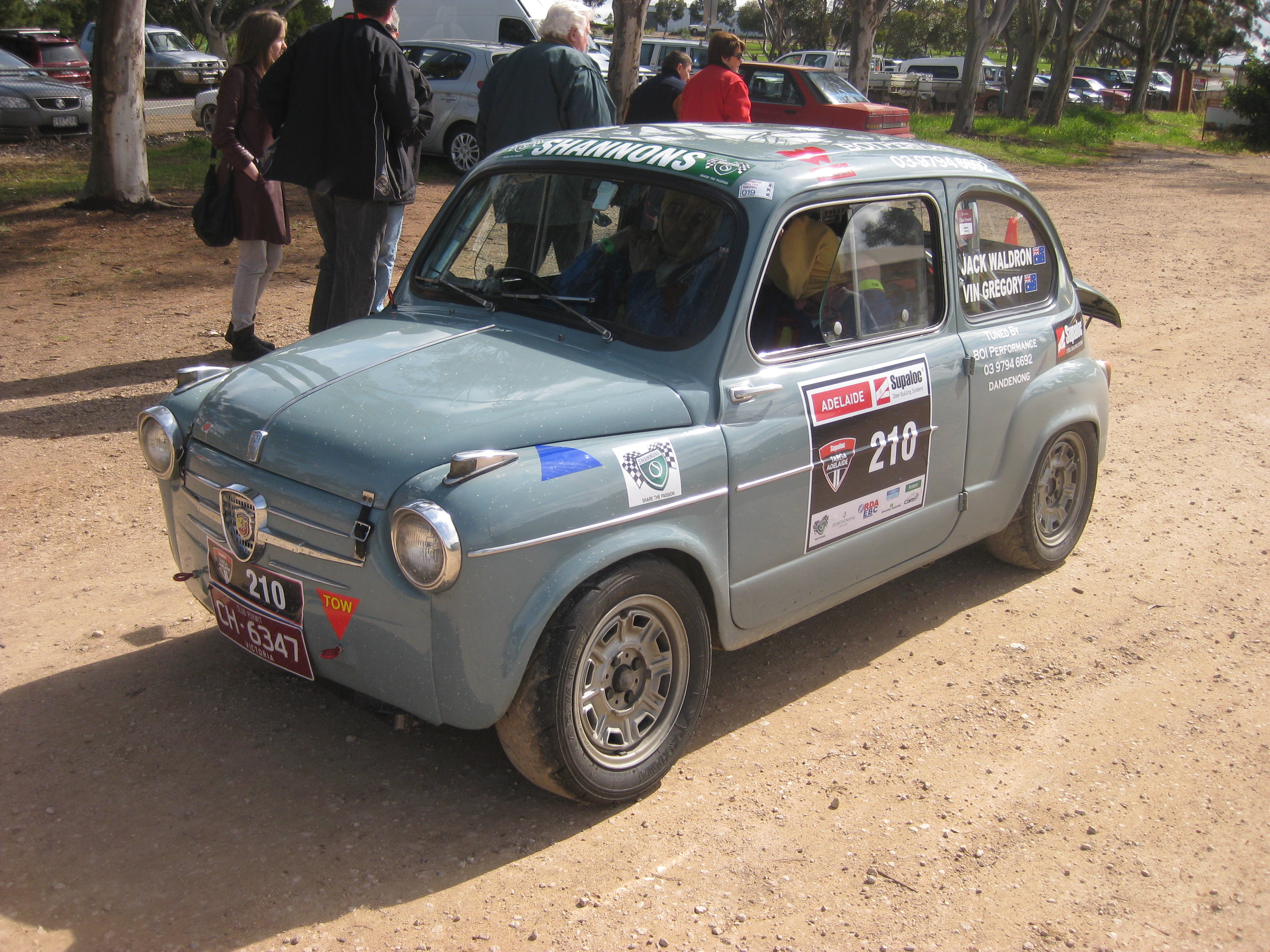 Fiat Abarth 750 in the 2012 Targa Adelaide